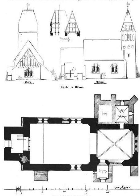 plan of church in Bülow (Schorssow), from Schlie: Die Kunst- und Geschichts-Denkmäler des Grossherzogthums Mecklenburg-Schwerin. BAnd 5, 1902, S. 65